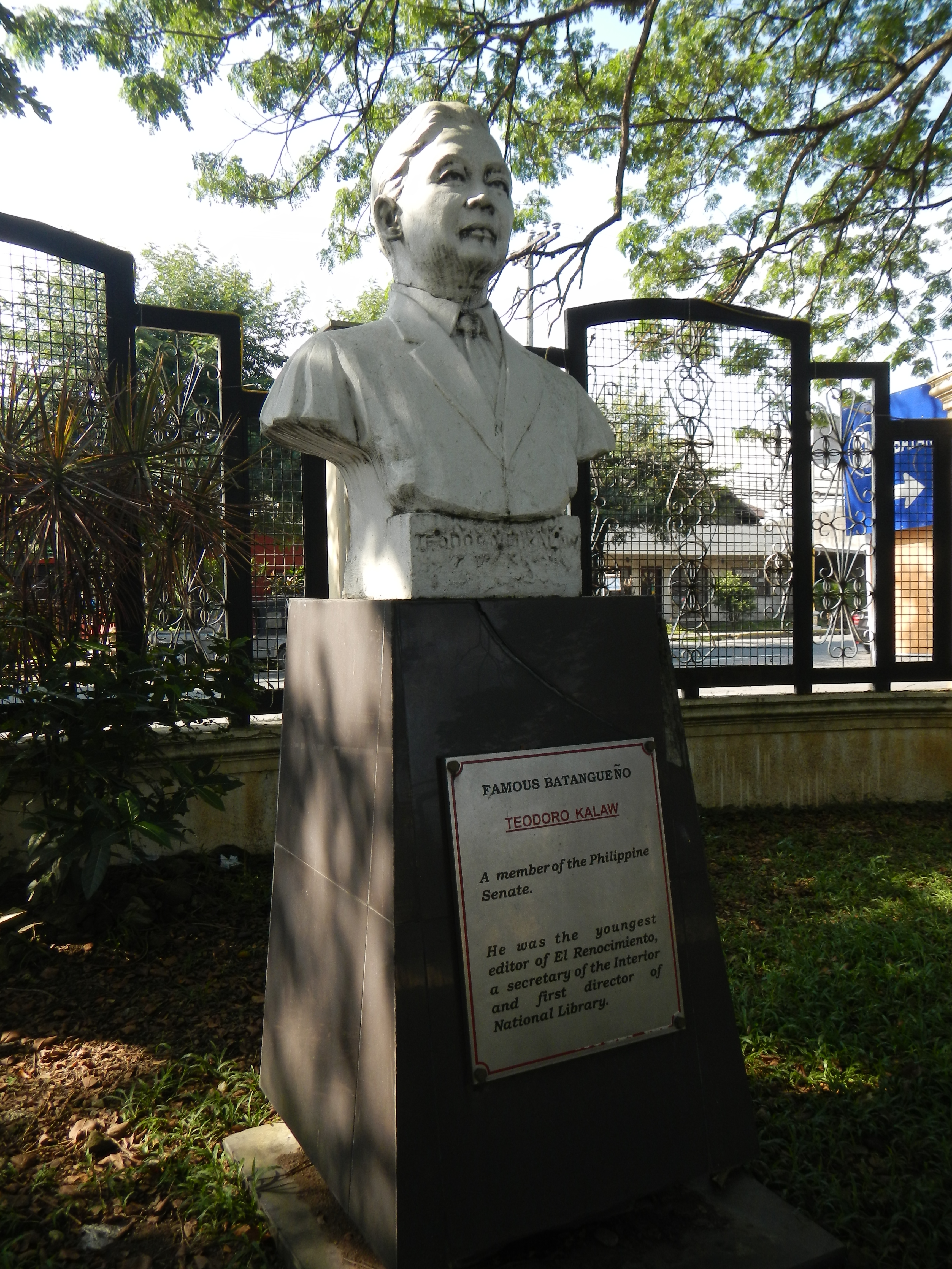 Upload Wizard -- (general description of landmarkds, town, church) - of - Felipe Agoncillo, Galicano Apacible [1], Teodoro Kalaw, busts, monuments at Historical Park of the --- Historical Park and Laurel Park - Capitol Site, - at the - Batangas [2] Provincial Capitol [3] Coordinates: 13°45'55"N 121°3'50"E Batangas City (the largest and capital city of the Province of Batangas, the "Industrial Port City of Calabarzon", 2010 census, the city has a population of 305,607 people - 1926 Batangas [4] Provincial Capitol [5] Coordinates: 13°45'55"N 121°3'50"E Batangas City (the largest and capital city of the Province of Batangas, the "Industrial Port City of Calabarzon", 2010 census, the city has a population of 305,607 people) and the Calumpang River, and the Batangas Central Terminal.